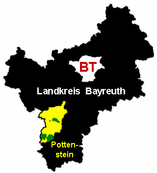 Location of Pottenstein in the district of Bayreuth, Germany